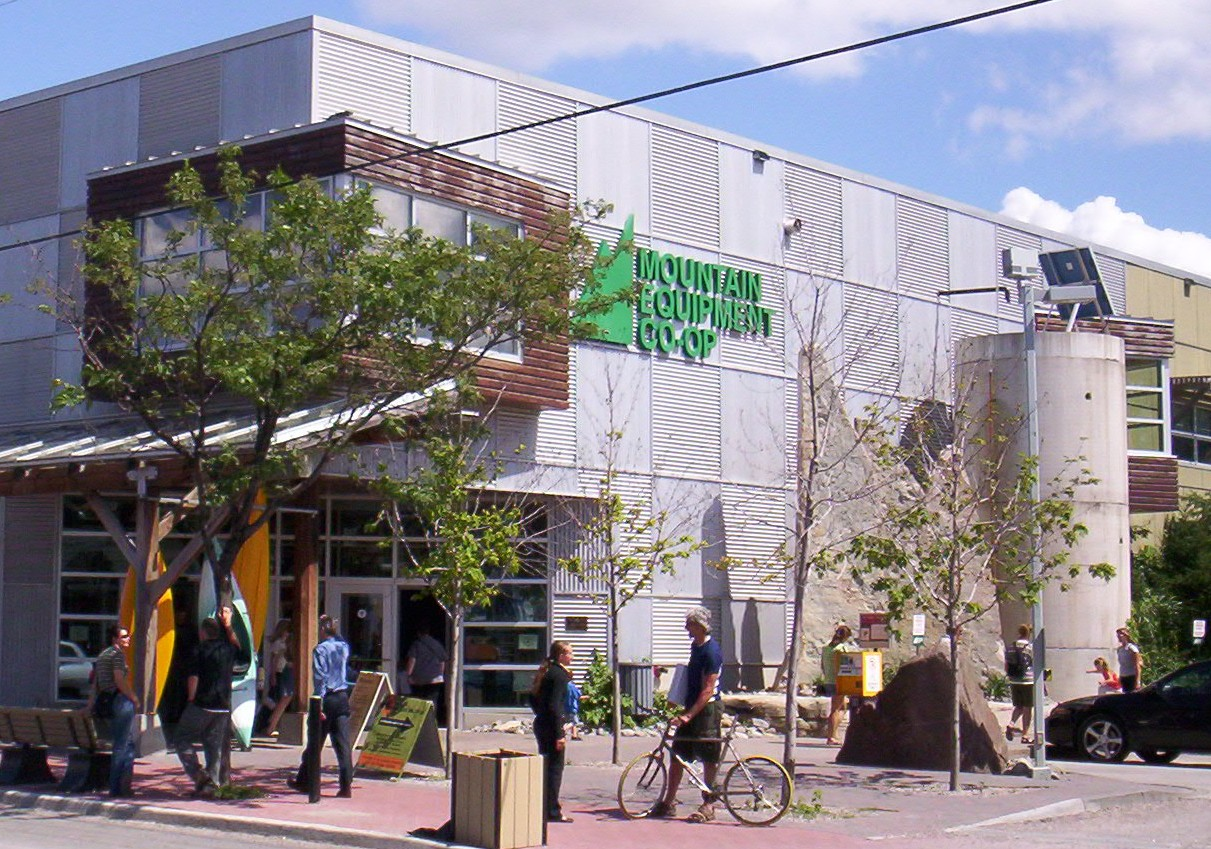 Exterior of Mountain Equipment Co-op store in Ottawa, Ontario, Canada. Personal photo by user:Radagast.